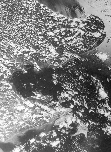 USGS satellite photo of Darvel Bay, eastcoast of Sabah, Malaysia.